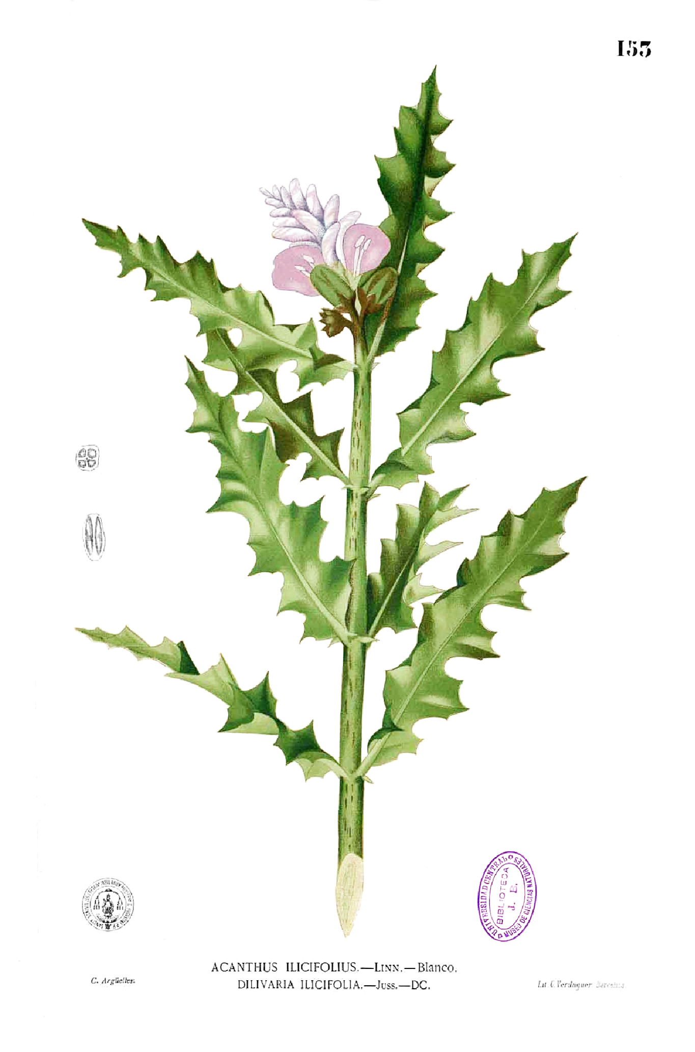 Acanthus ilicifolius Plate from book